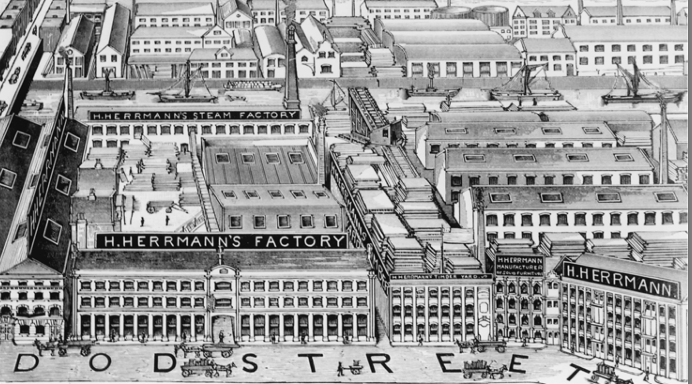 Scene beside Limehouse Cut showing H. Hermann's hardwood furniture factory, 1891 and surrounding context including timber yards and electric crane.